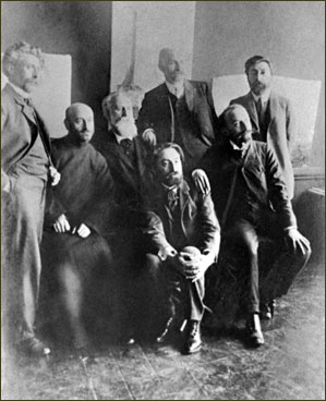 At Gevorg Bashinjaghian’s studio; Komitas, Ghazaros Aghayan, Vrtanes Papazian, Levon Shant, Gevorg Bashinjaghian, Hovhannes Toumanian, Avetiq Isahakian. Tiflis, 1908